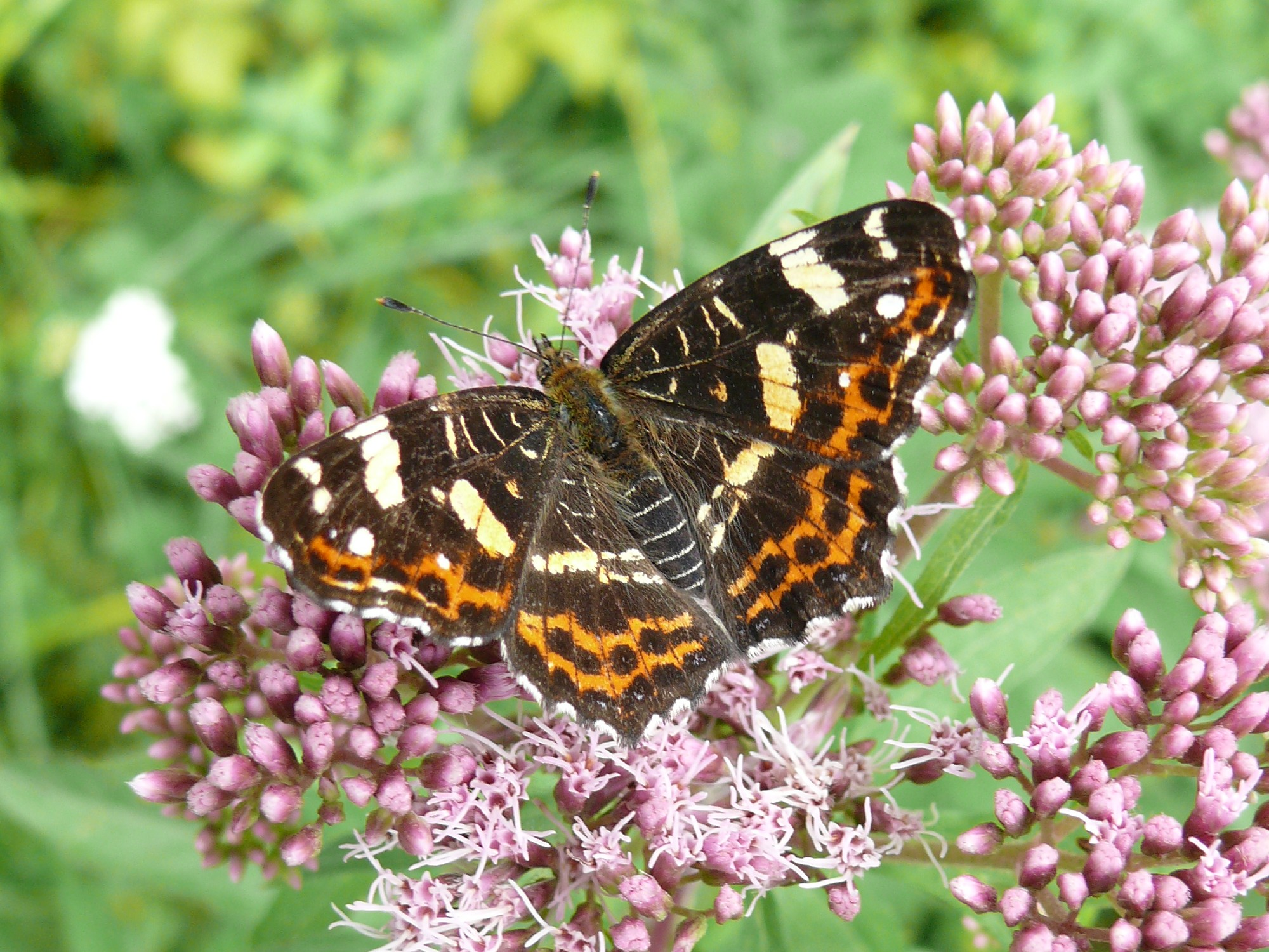 Intermediate form of the Map butterfly, photographed in Eberberger Forst, Bavaria, Germany